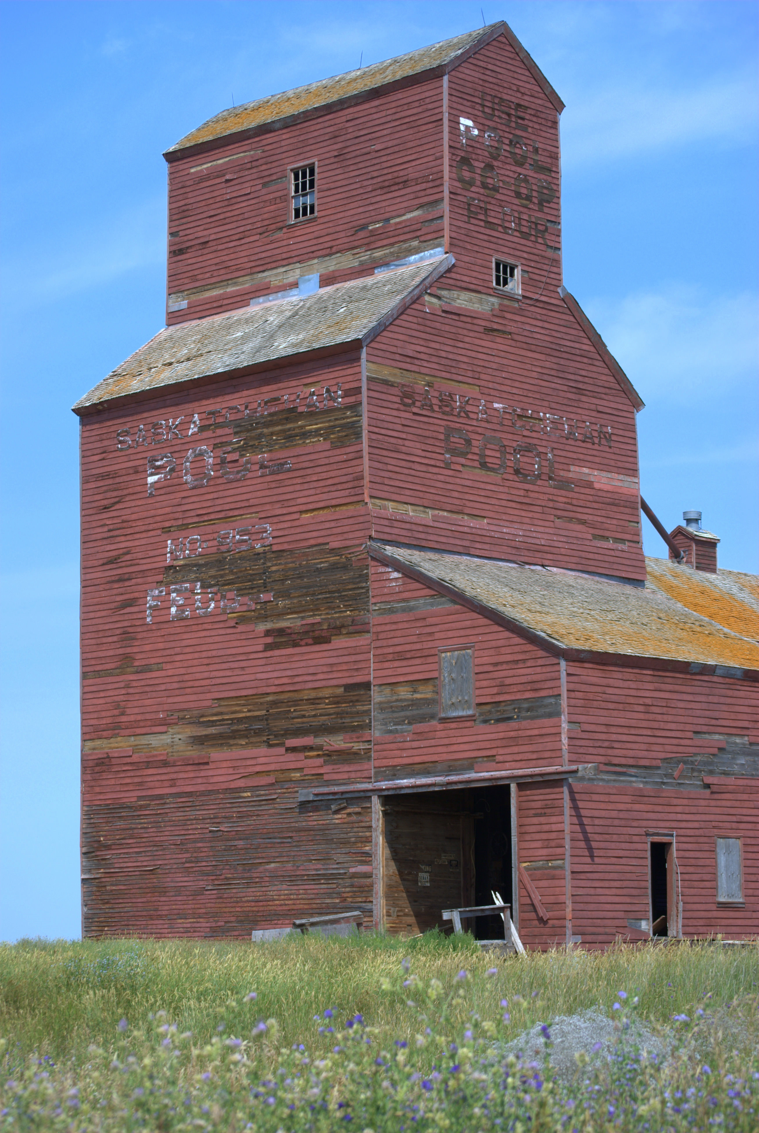 Fuedal, Saskatchewan. Copyright 2009 D. Darwent. All Rights Reserved. An abandoned grain elevator in Fuedal, Saskatchewan. I have towonder over it its fifty years of service how many tonnes of grain was taken in through these doors. How many grain wagons hauled by teams of horses lined up at its doors in the morning; how many waves of changes in technology evolved inside its walls.